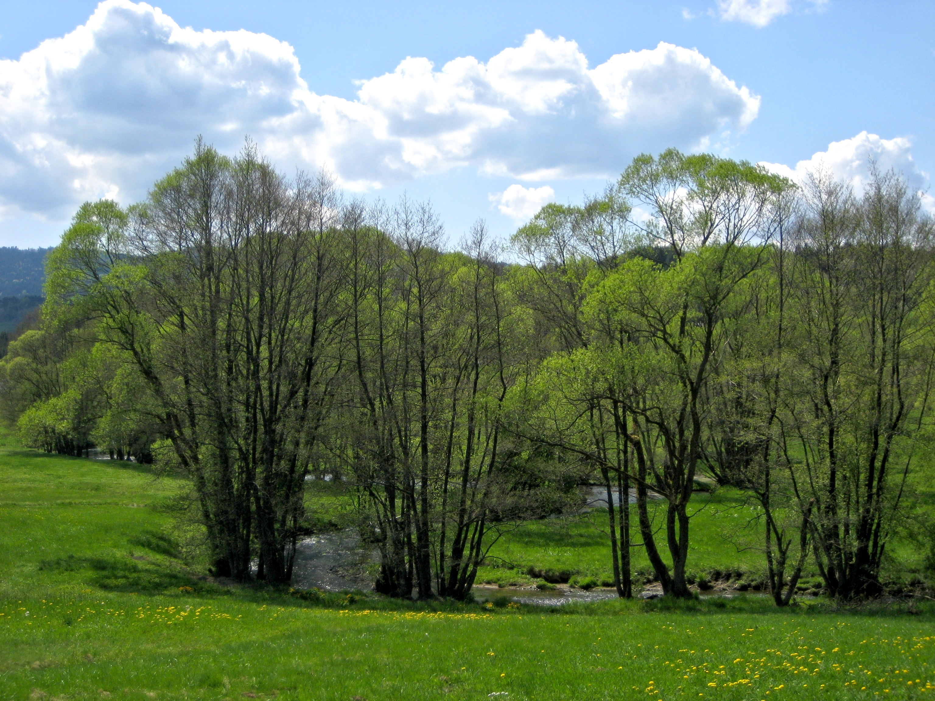 Teisnach near Ruhmannsfelden, Lower Bavaria